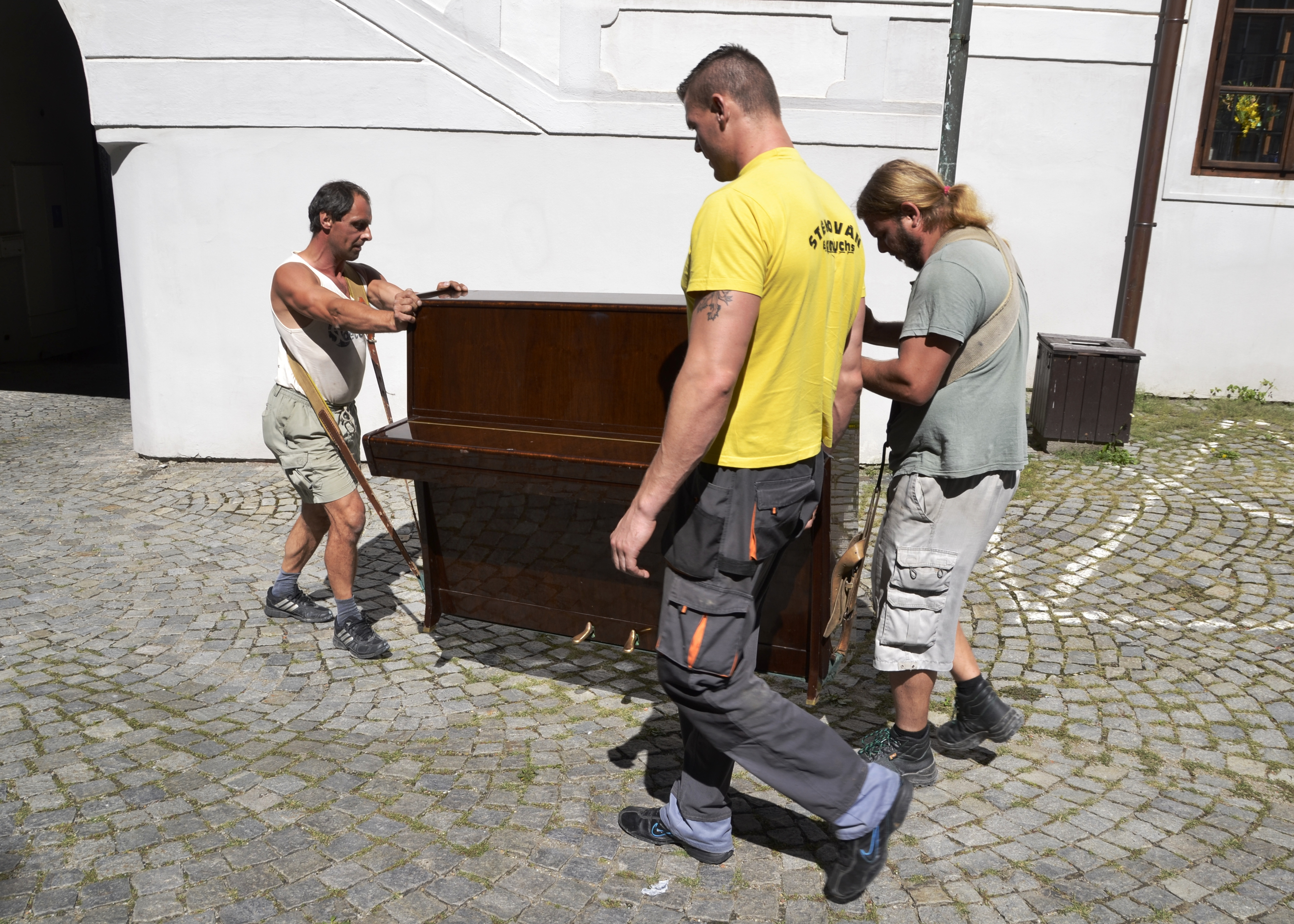 Three men are carrying a piano during a move.